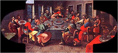 Last Supper: An Ukrainian Icon (1728). Unknown artist. Original work in National Art Museum, Kiev.